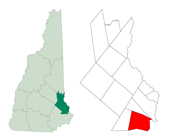 Created from Boundary/Border Outline Files of the Libre Map Project which held a BY-SA creative commons license. Data origionally from 2000 US Census boundary data.